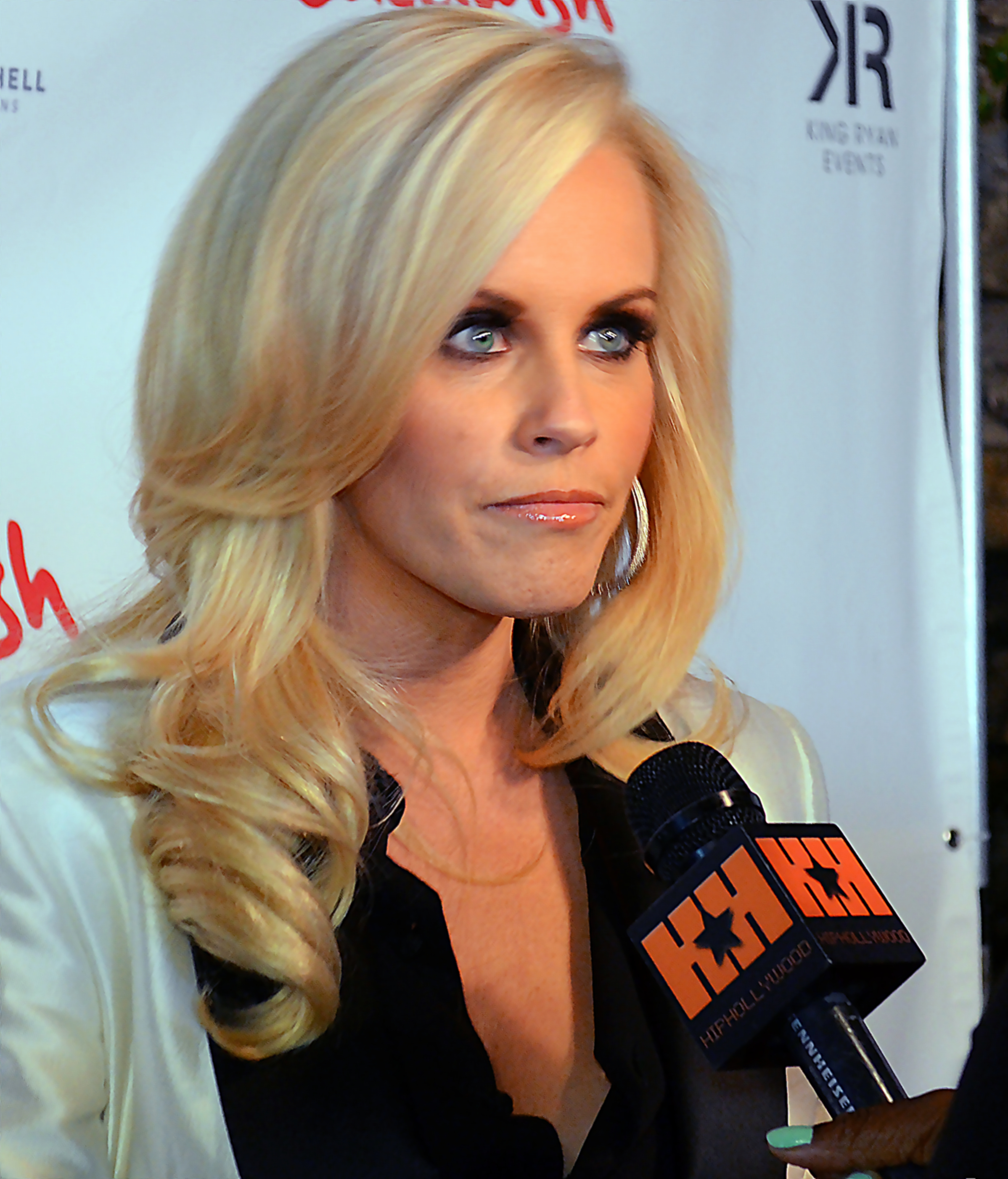 Jenny McCarthy at the Fame at the Playboy Mansion Grammy Party 2012.